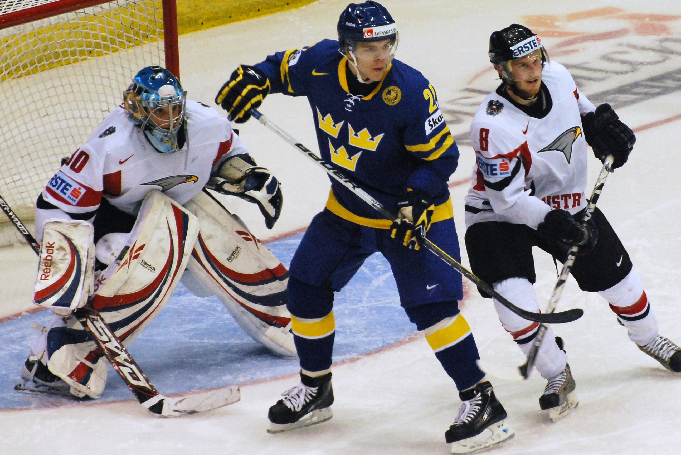 Austria - Sweden, 2010 IIHF World U20 Championship.